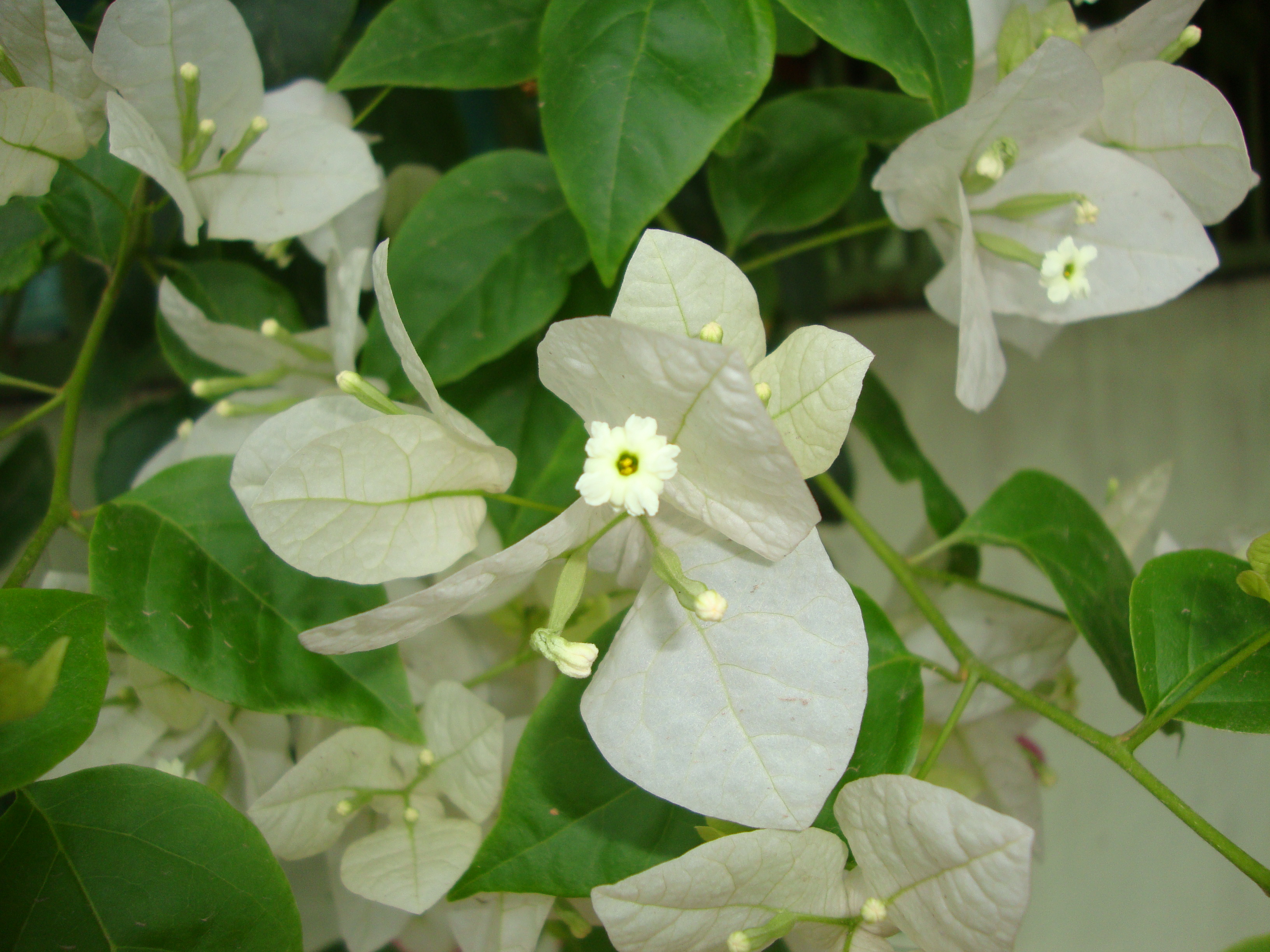 Bougainvillea spectabilis Willd., 1799